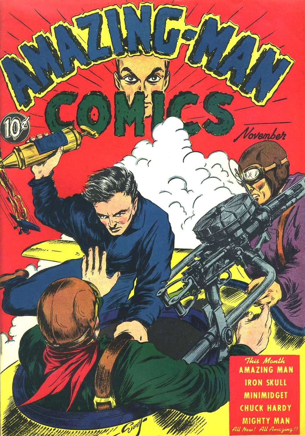 Cover of Amazing Man Comics 07 (November, 1939).Art by Bill Everett